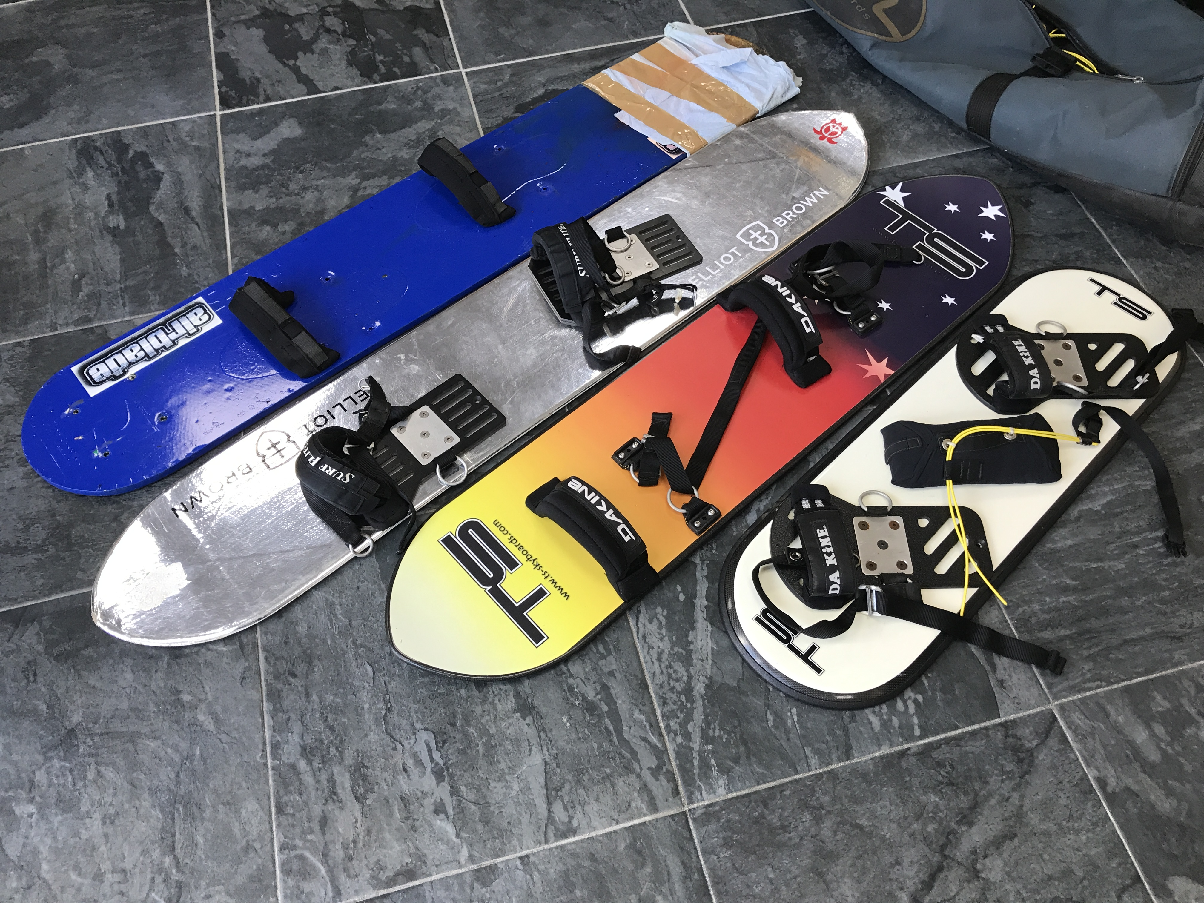 Smaller boards are initially used before progressing on to larger boards which require the surfer to deploy the main canopy from a standing position.